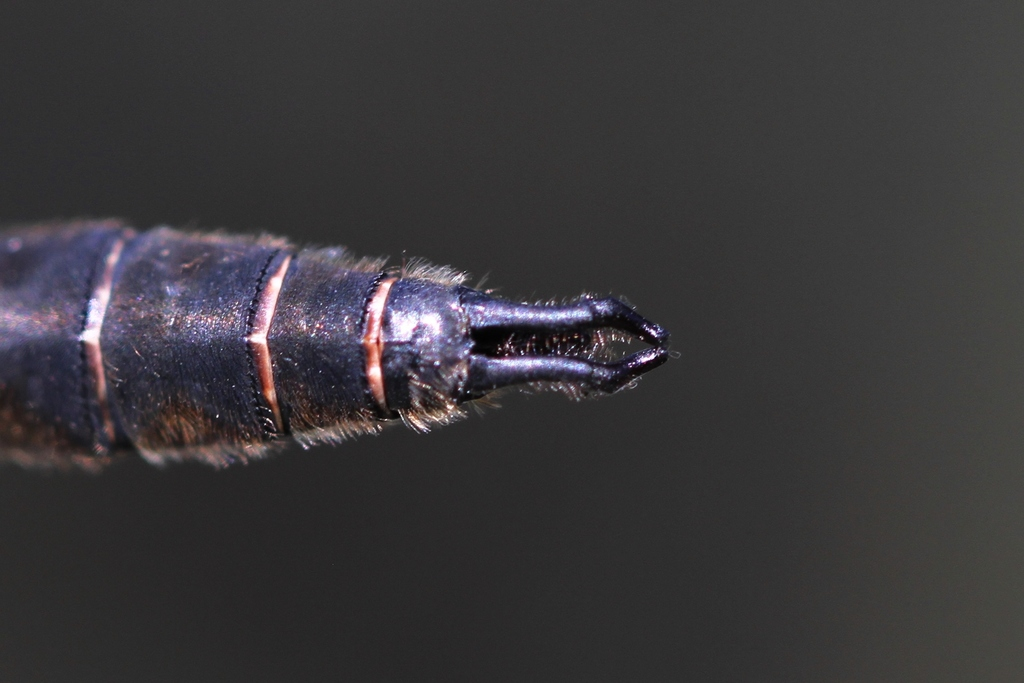 Whitehouse's Emerald (Somatochlora whitehousei), Tourbière de la rivière aux Pékans, Fermont, Sept-Rivières--Caniapiscau, QC, Canada